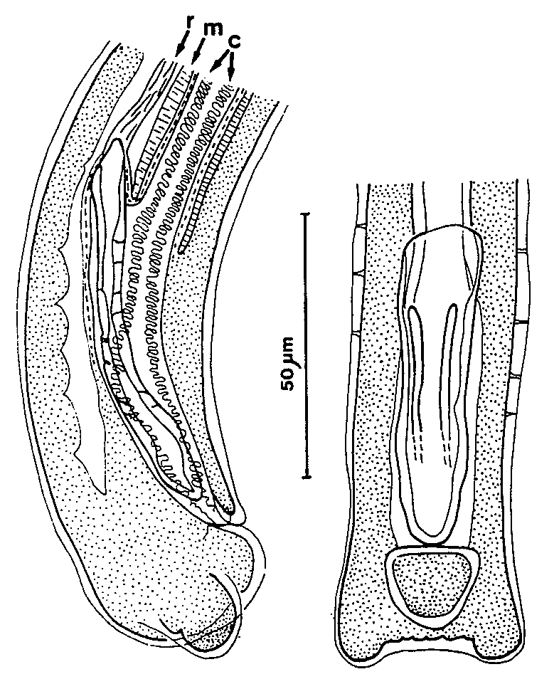 Capillaria bainae Justine & Radujković, 1988 (Nematoda, Capillariidae). Current combination: Pseudocapillaria (Pseudocapillaria) bainae (Justine & Radujković 1988) Moravec, 1990. Left: Figure 2H, Caudal extremity of male holotype, lateral view. r: retractor muscle of the spicule. m: muscular sheath around cloaca. c: cirrus. Right: Figure 2G, Caudal extremity of male paratye, ventral view. Lateral bacillary bands are shown. Similar to Figures 2G and 2H in article: Justine, J.-L. & Radujković, B. M. 1988: Capillaria bainae n. sp. (Nematoda: Capillariinae) parasite du Poisson Parablennius gattorugine en mer Adriatique. Bulletin du Muséum national d'Histoire naturelle, Paris, 4° Série, 10 (A), 15-24.